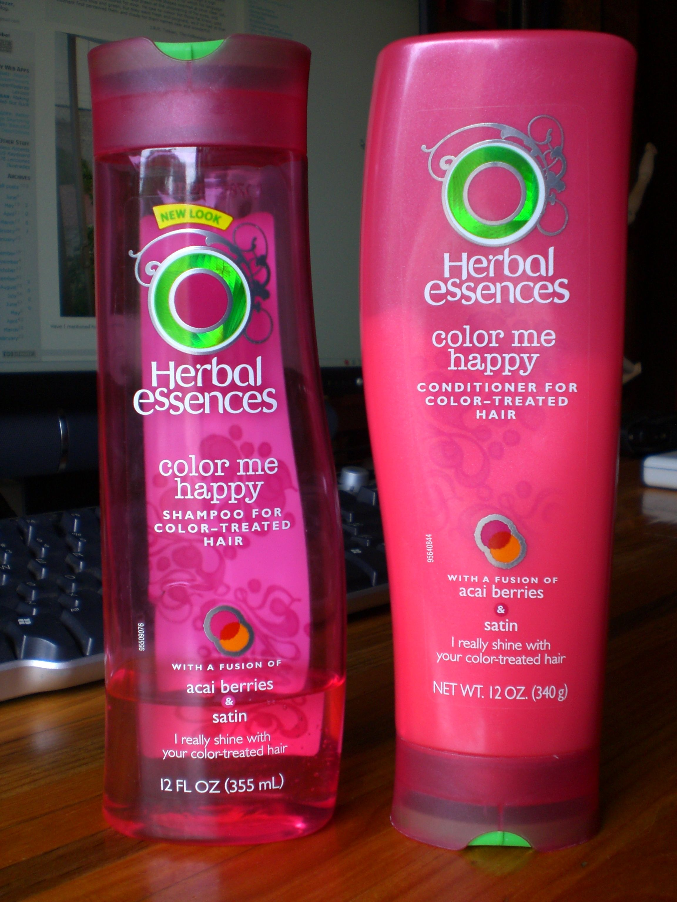 Herbal Essences - "Color Me Happy" shampoo and conditioner bottles